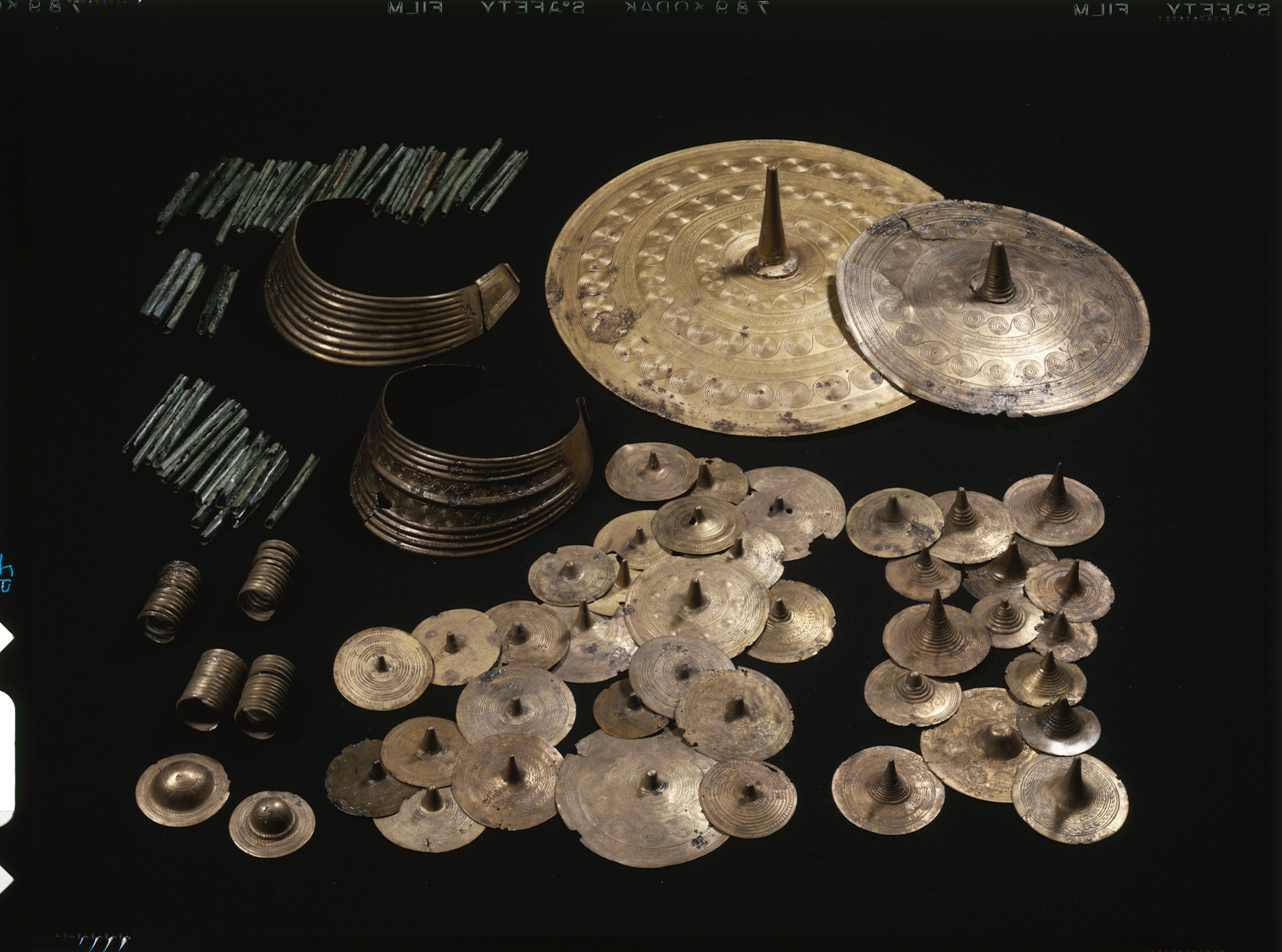 Votive sacrified objects / hoard: Vognserup Enge, Sjælland, Denmark, 1400-1350 BCE, Danmarks Oldtid, Nationalmuseet, FHM1680